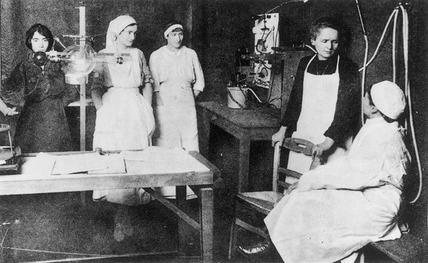 Marie Curie explains to a group of nurses the potential benefits of radium treatment photographic print